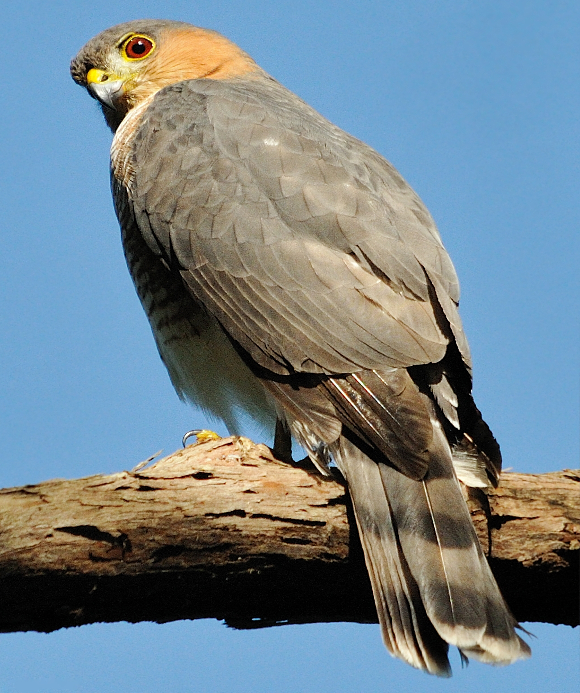 Puerto Rican Sharp-shinned hawk sitting on tree branch